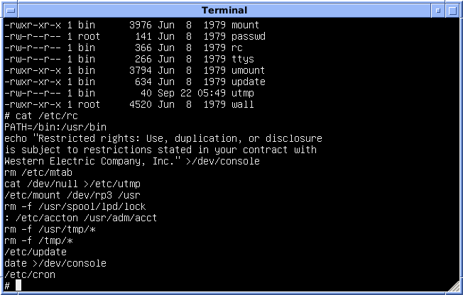 Version 7 Unix for the PDP-11, running in the SIMH PDP-11 simulator. The contents of "/etc/rc", the startup script run by "/etc/init" at boot time. The script is executed by the Bourne shell.